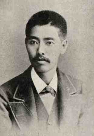 Sekiya Kiyokage(Seiseki)（1855-1896）